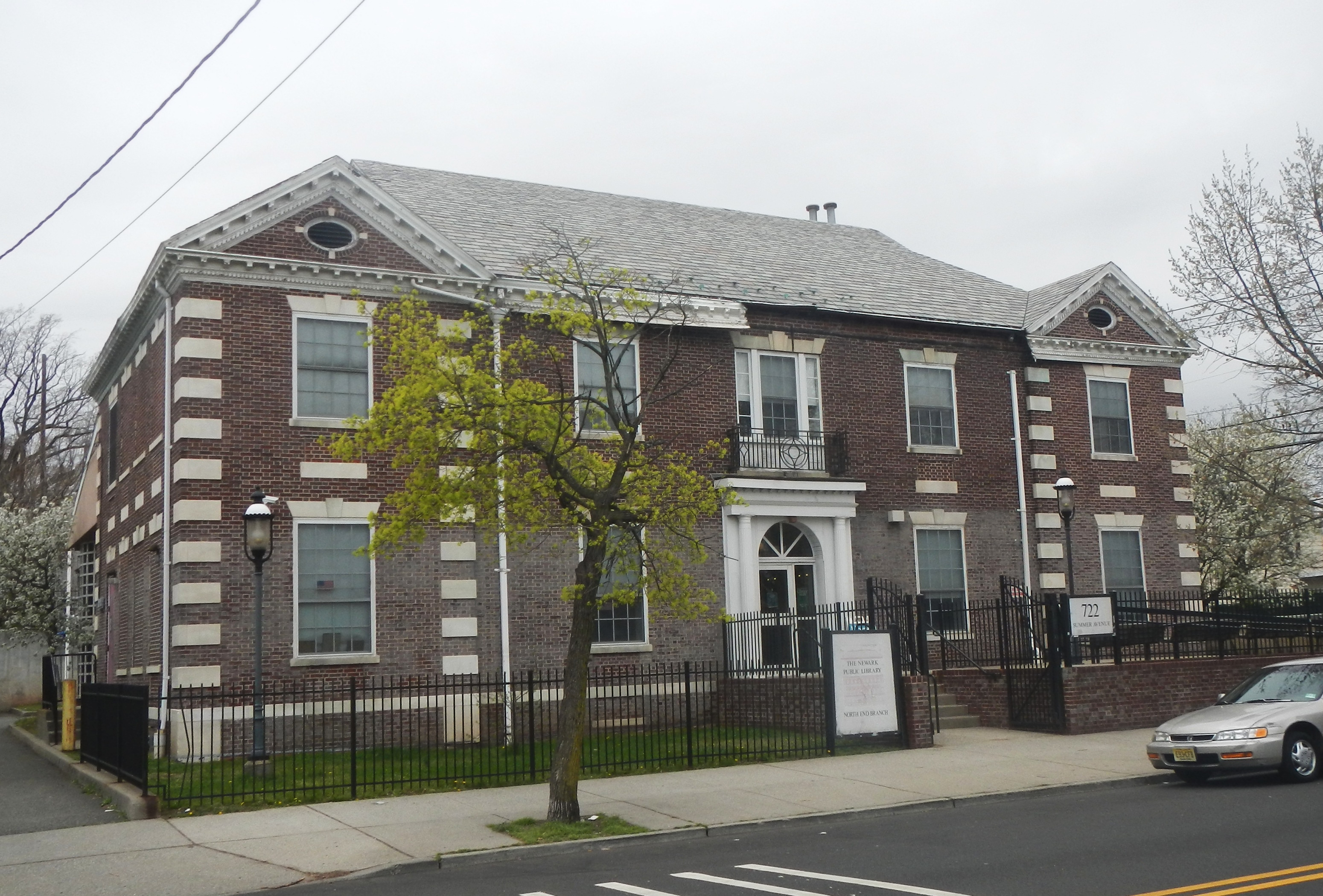 Looking northwest across Summit Avenue at Newark Public Library North End Branch on a cloudy afternoon.